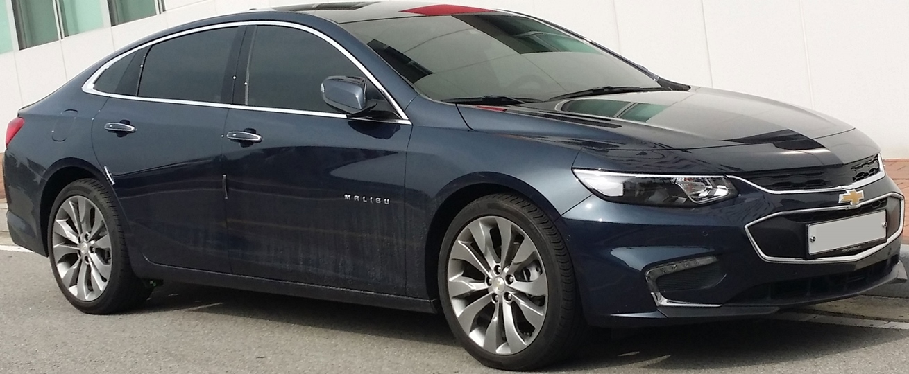 Chevrolet Malibu